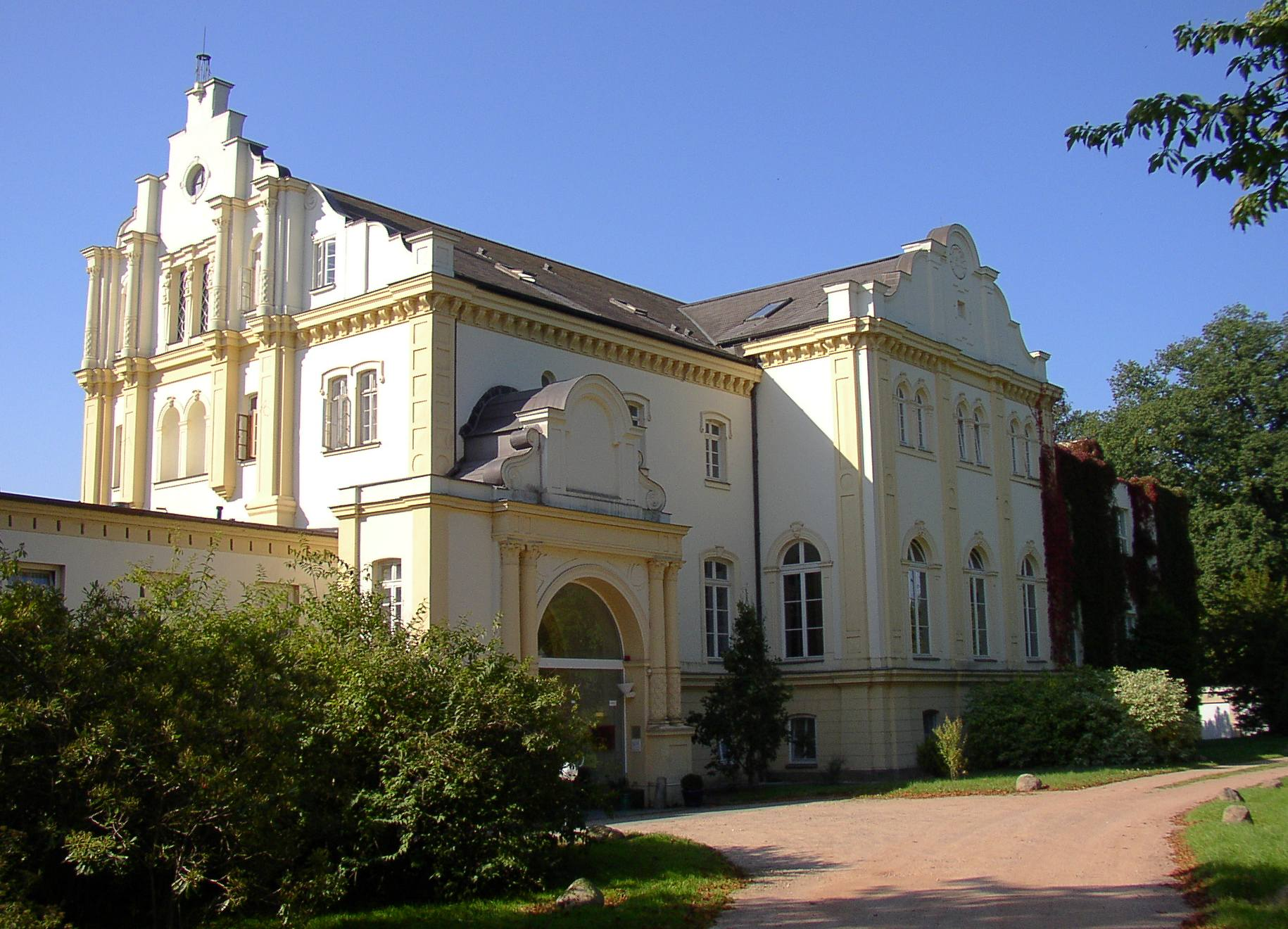 Castle in Matgendorf in Mecklenburg-Western Pomerania, Germany